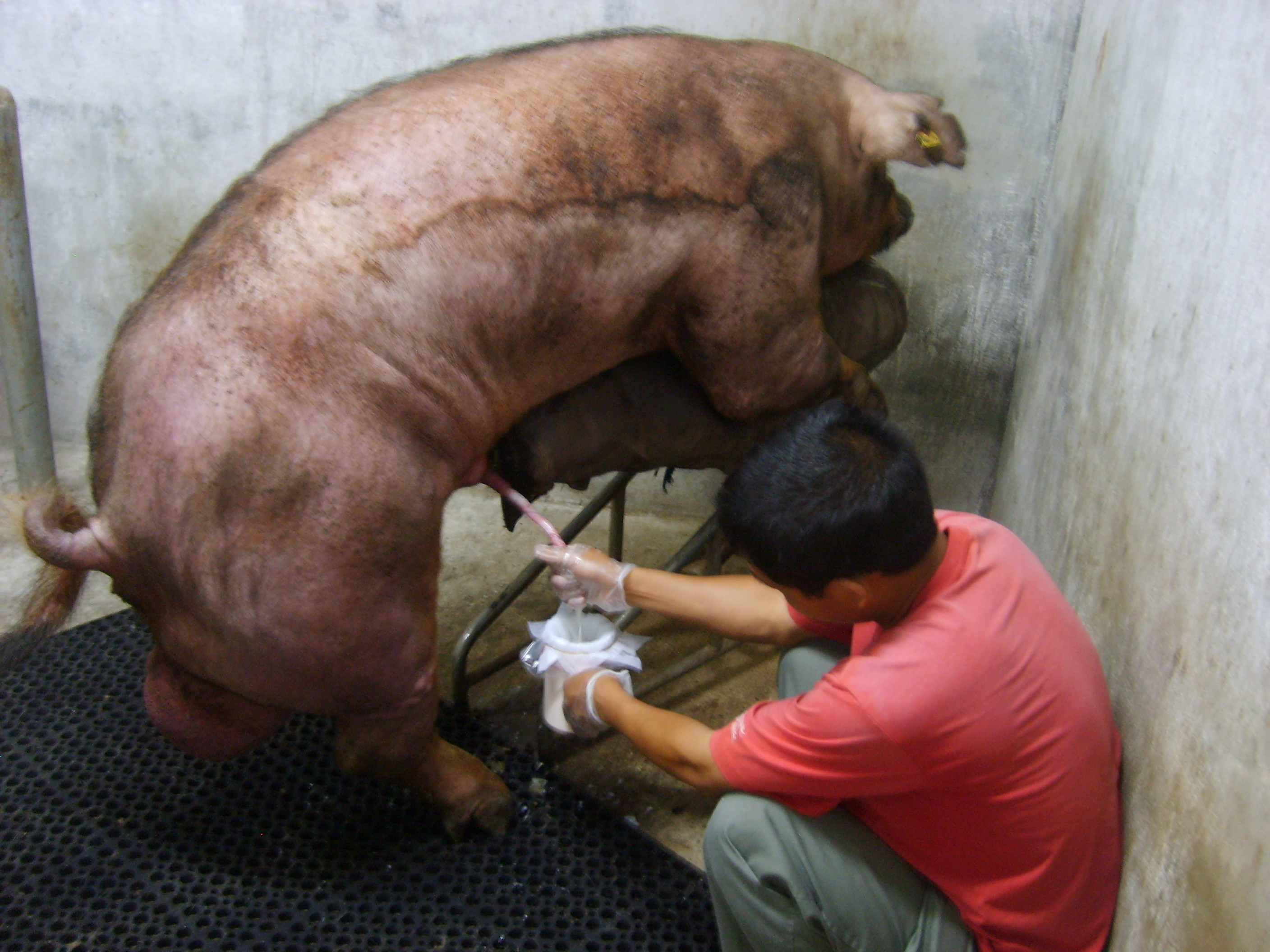 A man is collecting semen from a boar.